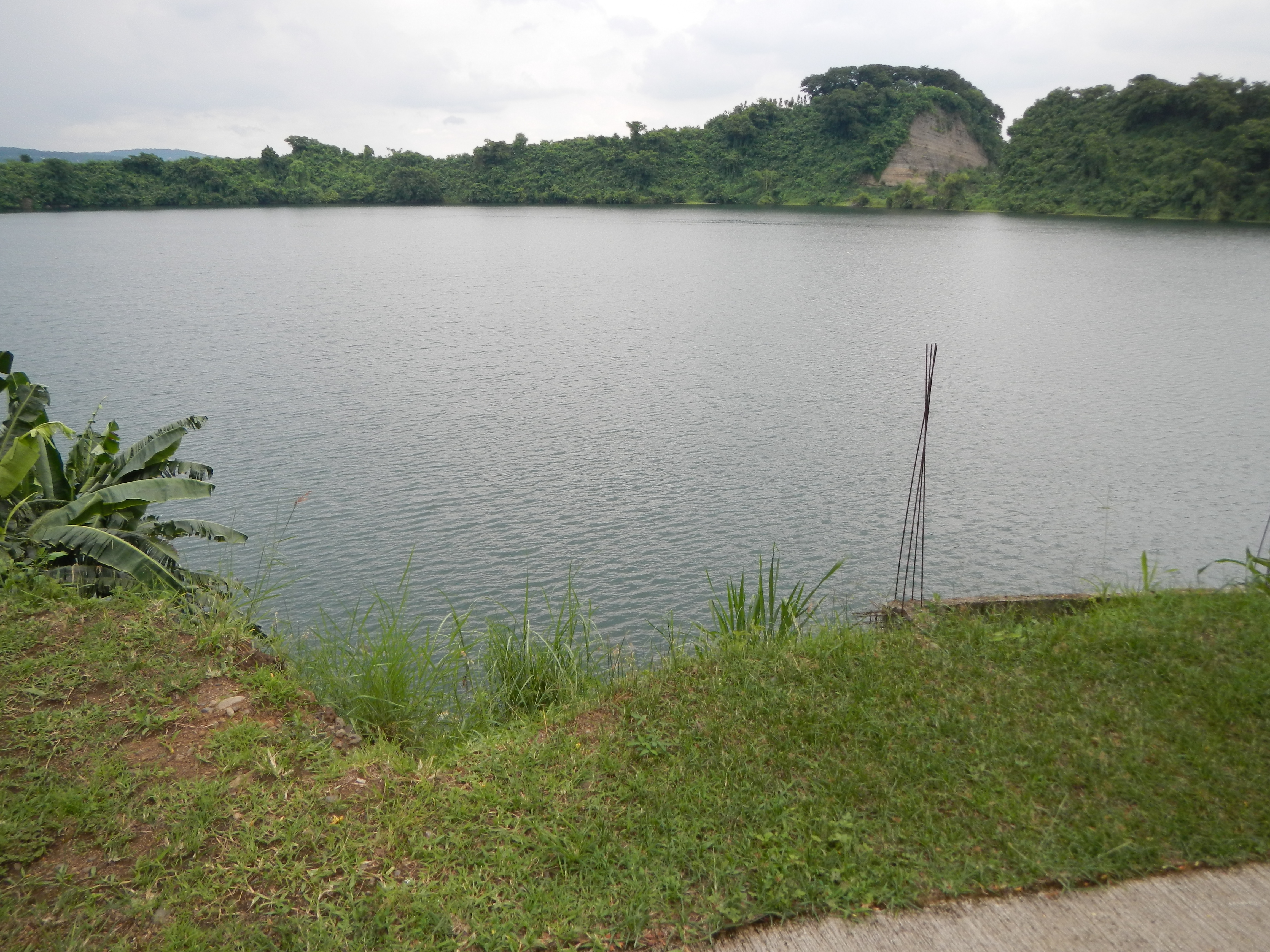 Scenic -- Alligator, Laguna Region IV-A Coordinates 14°10′57″N 121°12′23″E 23 hectares (57 acres) Surface elevation 2 metres (6.6 ft) - Tadlac Lake is one of the eight crater lakes within the Laguna de Bay watershed. Alligator Lake aka Enchanted Lake aka Tadlac Lake. ... List of lakes of the Philippines [1] Also known as Lake Tadlac, it is located along the shore of Laguna de Bay in Brgy. Tadlac, Los Baños - crater lak[2] [3] Multi-Stakeholders’ Efforts for the Sustainable Management of Tadlac Lake, the Philippines A Shower of Bee-eaters [4] Crocodile Lake is a mysterious lake know for its basin-like lake underwater geography, an extinct volcanic crater or maar leading into the core of the earth; Coordinates: 14°10'57"N 121°12'23"E [5] - Los Baños[6]